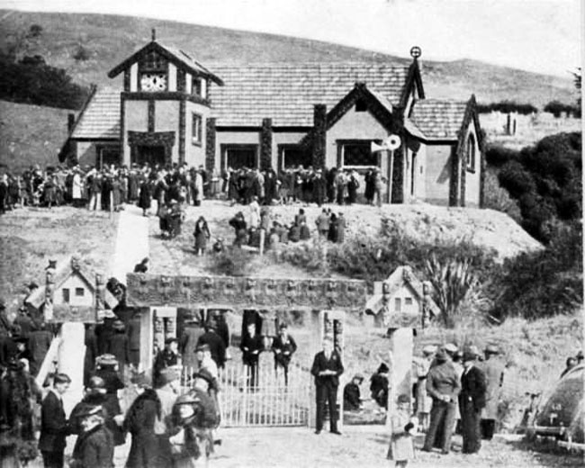 Church from Otakou, Dunedin, New Zealand, Opening ceremony in December 1946